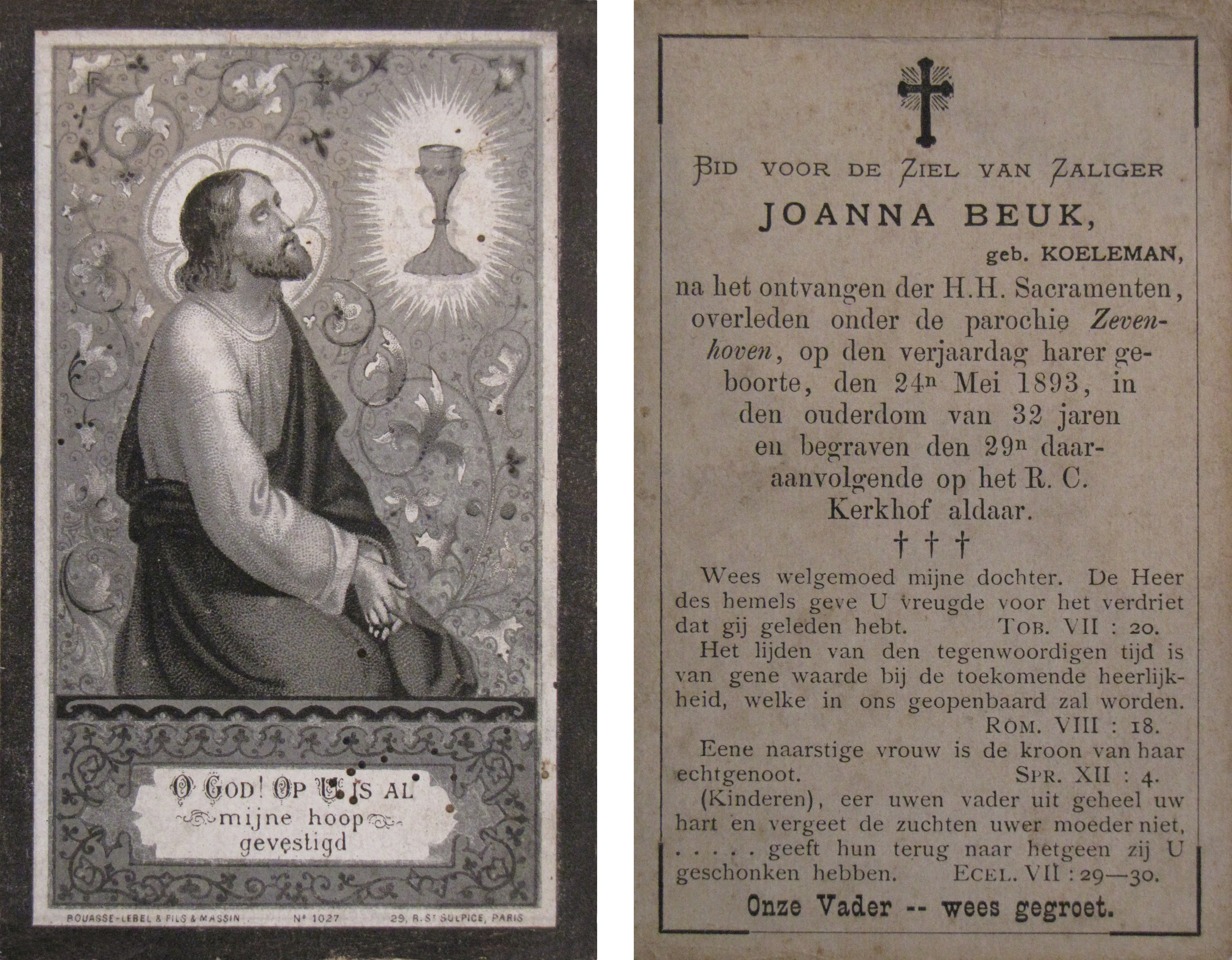 Front and Back of Dutch In memoriam card, printed in Paris, 1893